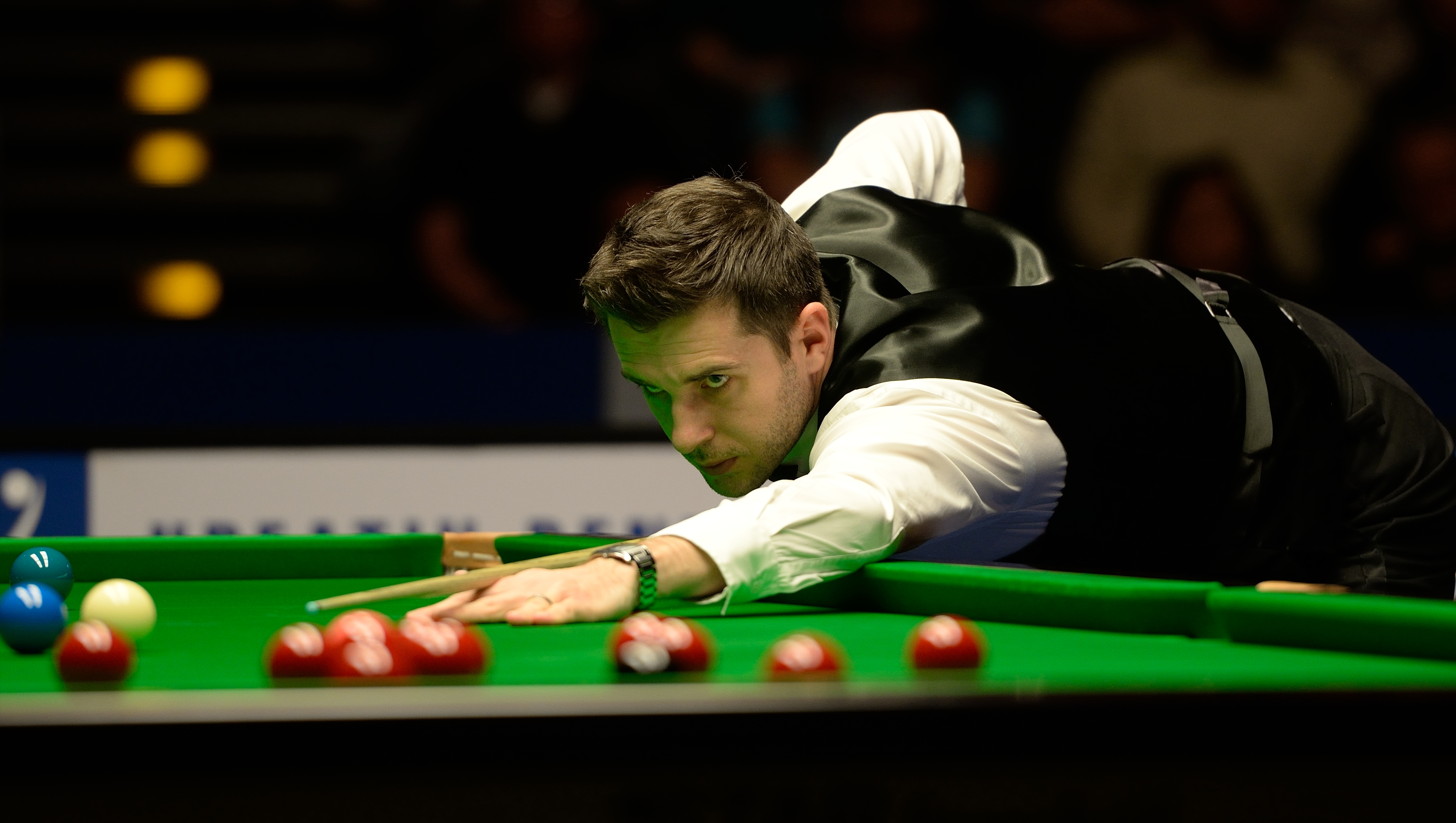 Picture taken in Berlin during the Snooker German Masters in 2015. Mark Selby.